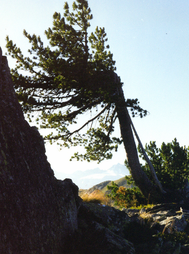 A Pinus cembra, probably cut by usual heavy climatic conditions (wind or snow). Dent-de-Nendaz above Haute-Neudaz and Isérables, Valais, Switzerland